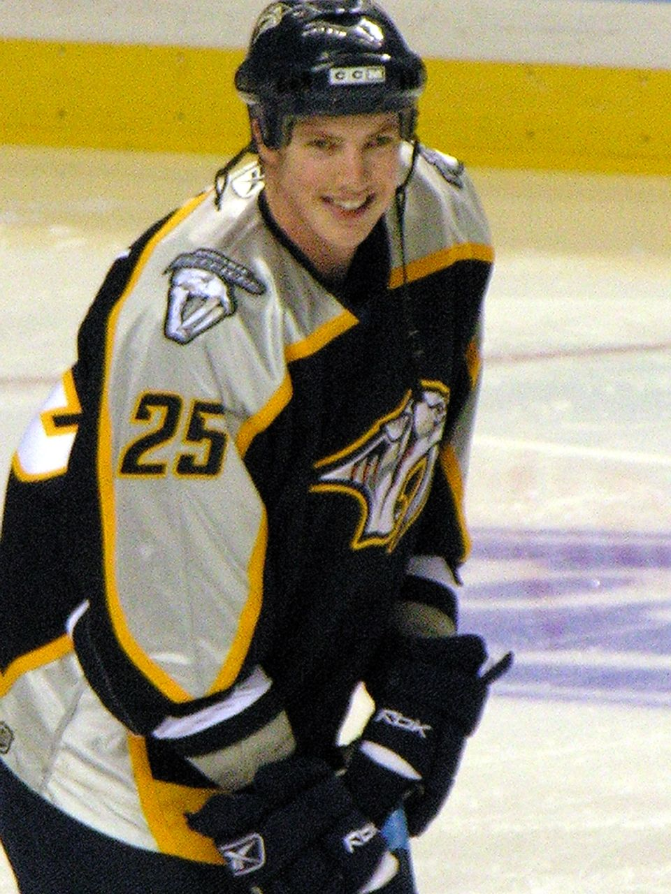 Jerred Smithson